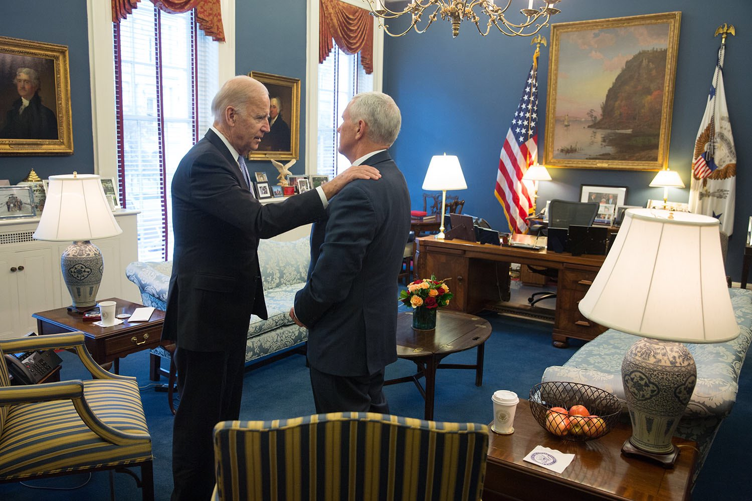 Vice President Joe Biden meets with his successor, Vice President-elect, Gov. Mike Pence of Indiana.